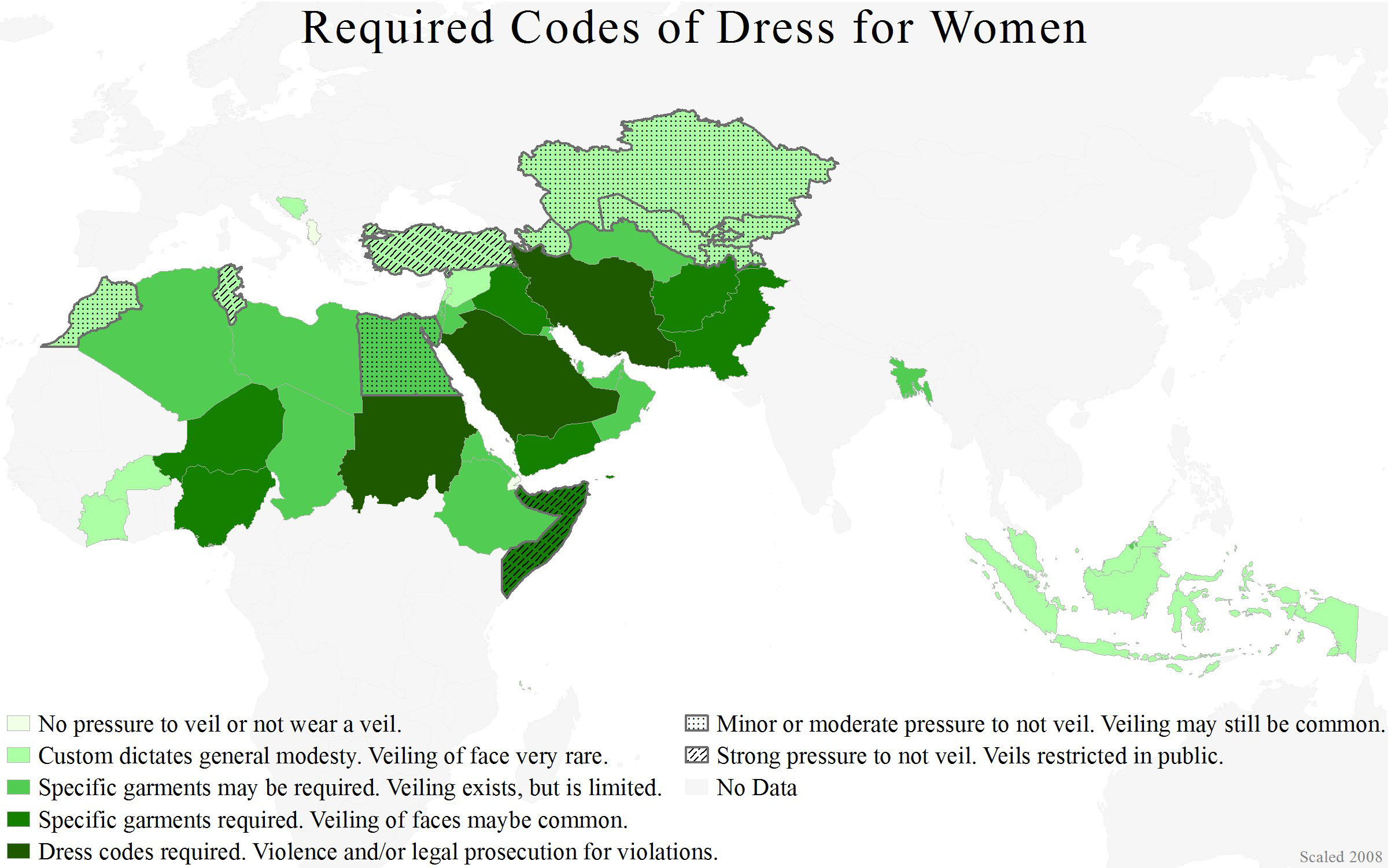 This is a map of Islamic countries showing level of required dress codes for women.